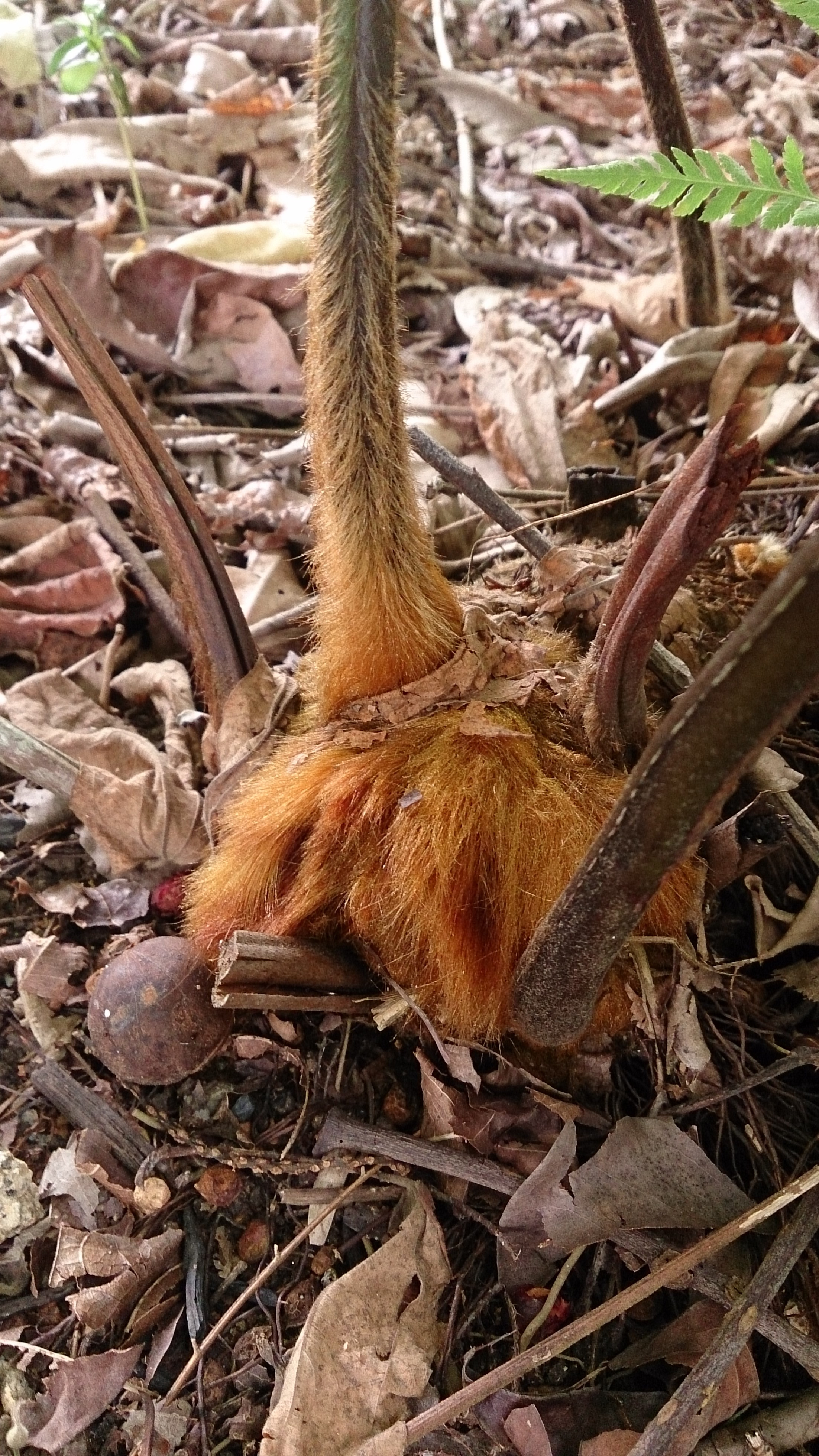 Cibotium barometz. Common names: Golden Chicken Fern. Bulu pusi (Malay). Distributed from South-east Asia to China. The rhizome is used to treat liver and kidney problems. It is used as a styptic for wounds and to strengthen bones.